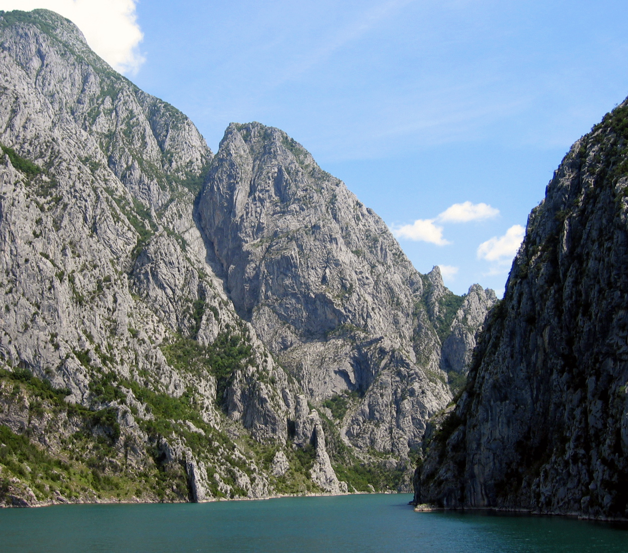 Drin Canyon and artifical Lake Koman in Northern Albania